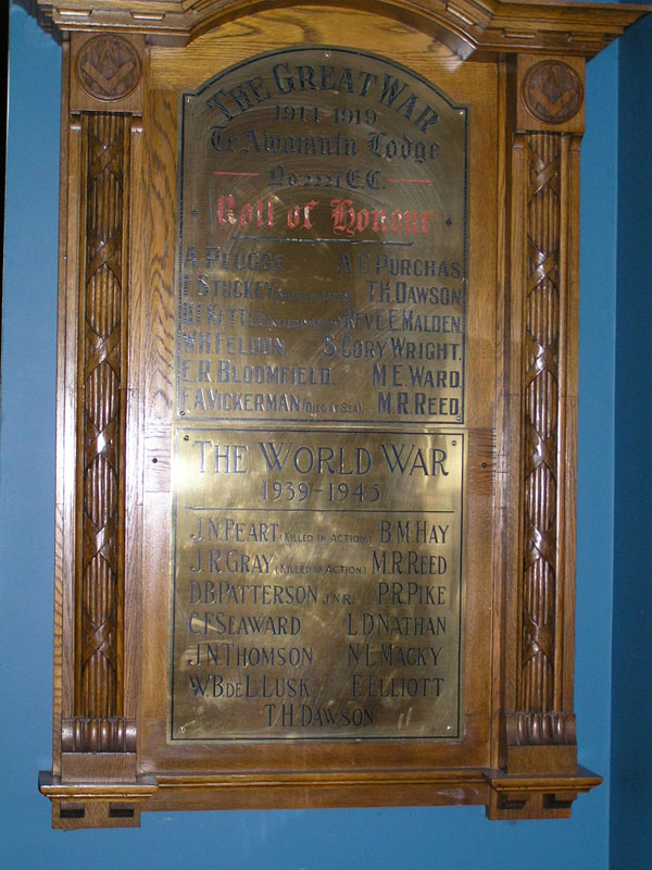 Roll of Honour, Freemasons, Te Awamutu Lodge No.2221 E.C.